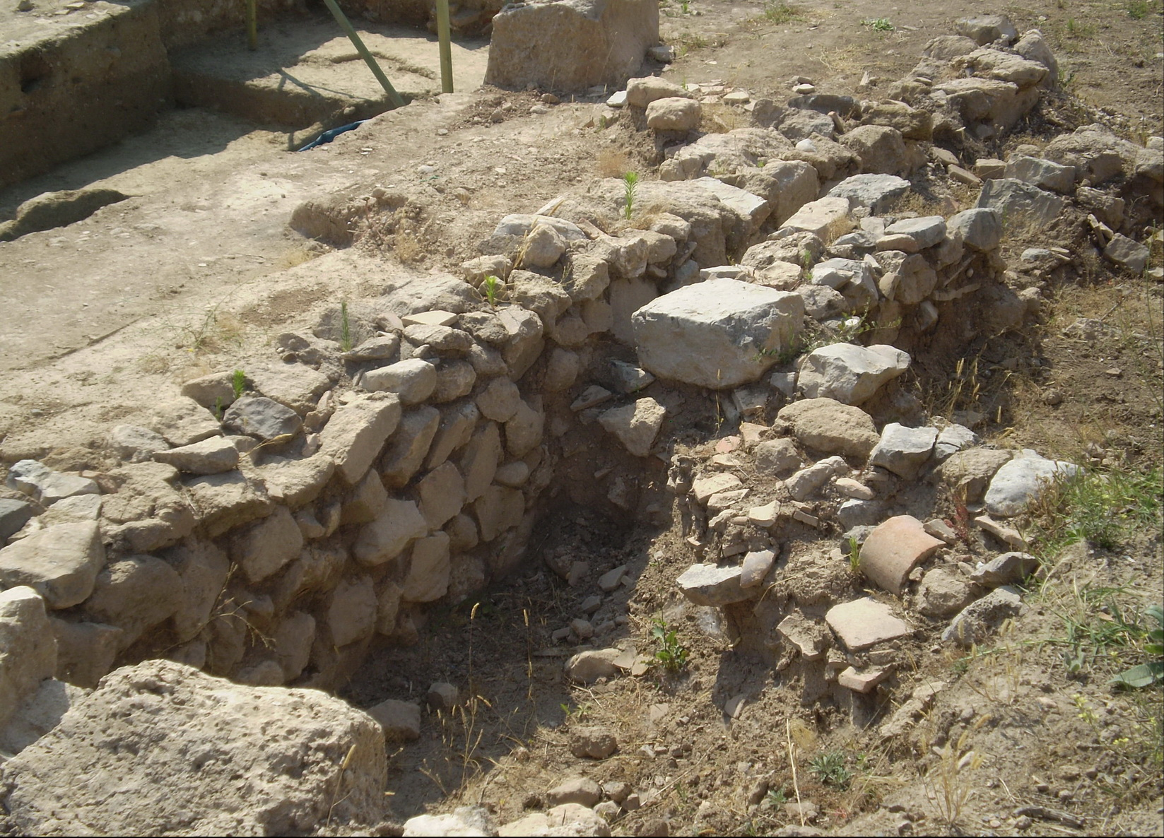 The archeologic site of Iampolis in Kalapodi Fthiotis, in Central Greece.